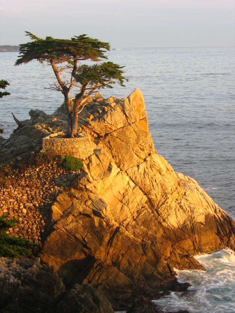 This picture is of my own work. The Lone Cypress on en:17-Mile Drive.